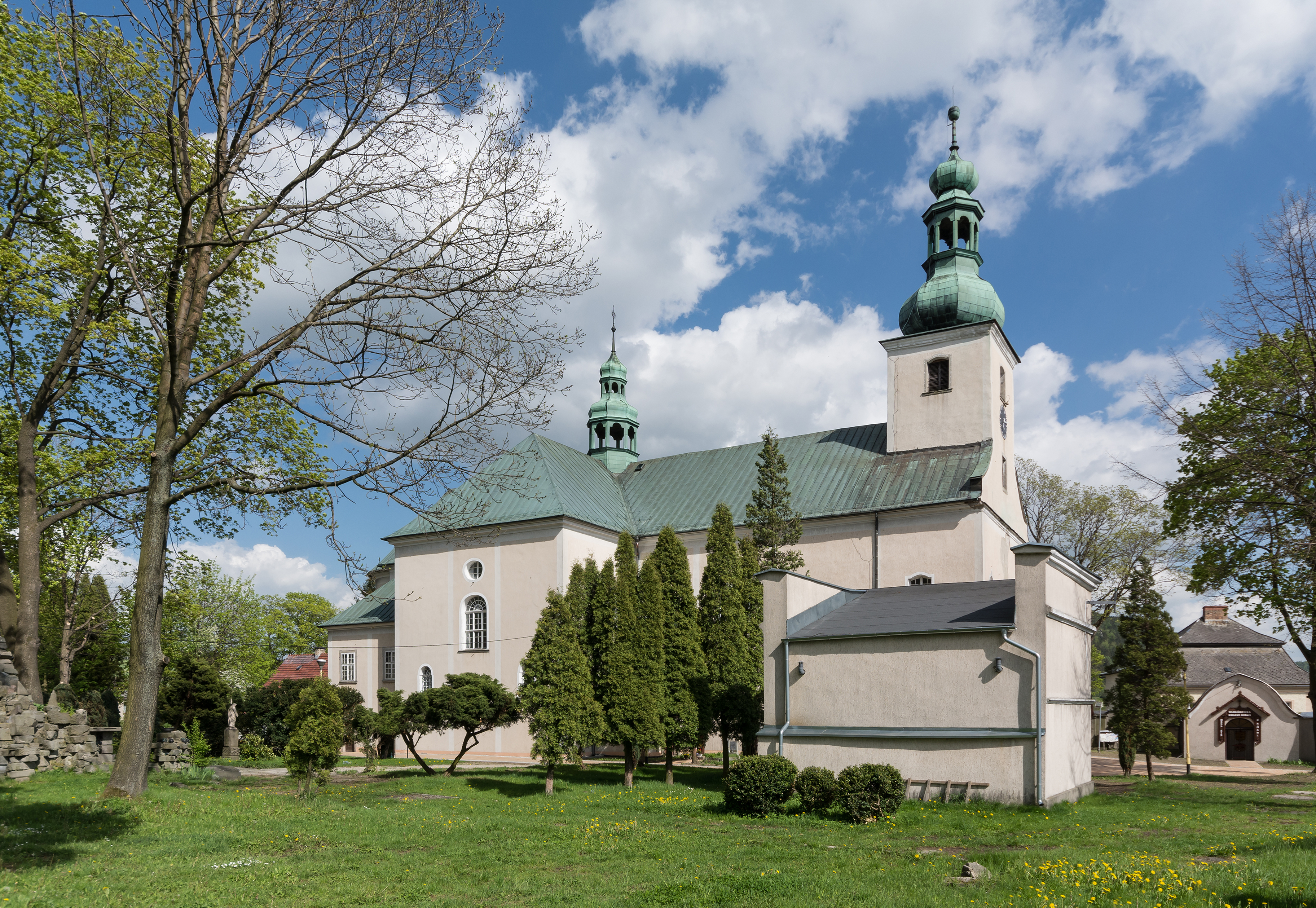 Saint John the Baptist church in Szczytna Ta fotografia przedstawia zabytek wpisany do rejestru zabytków pod numerem ID 593120